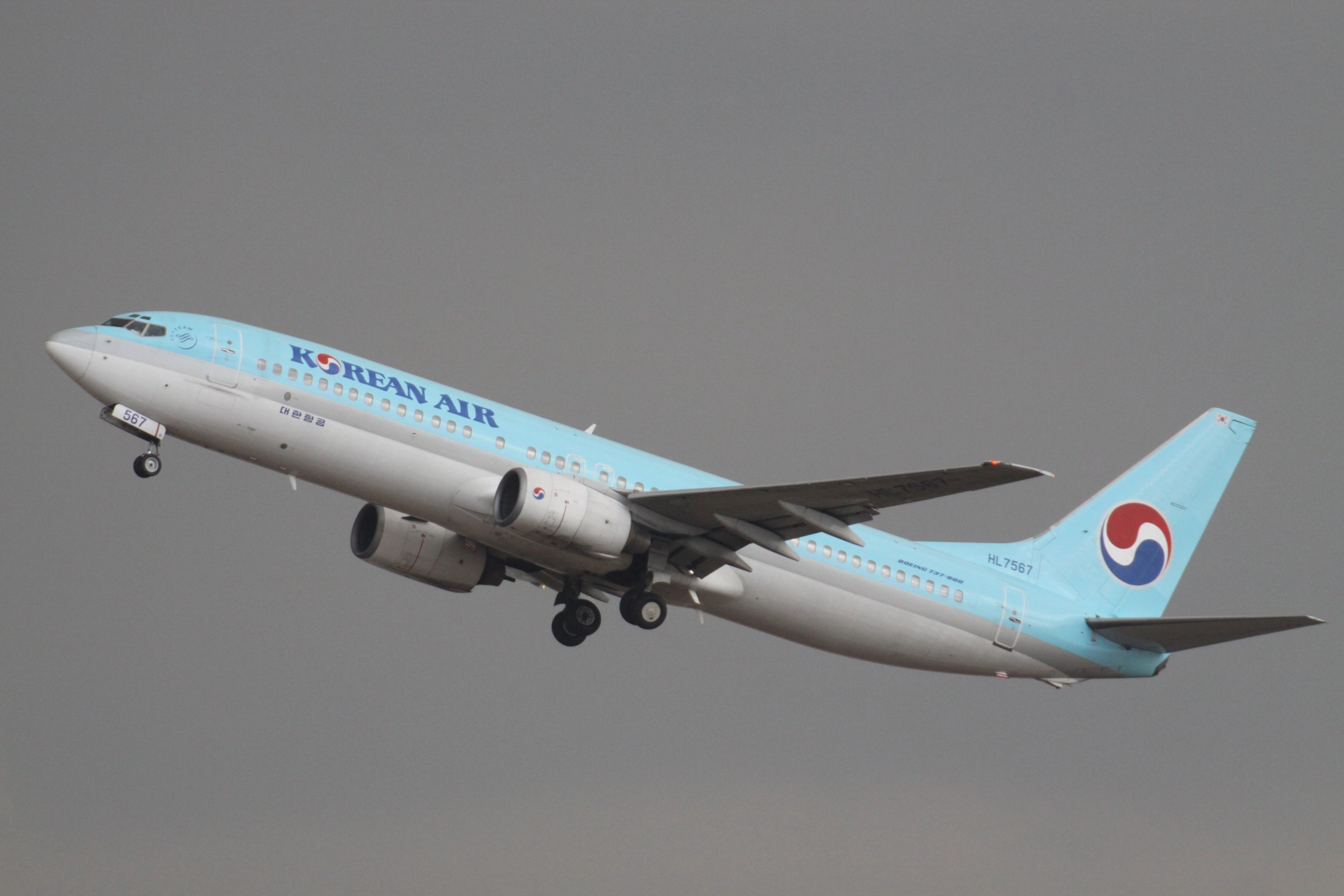 At Seoul Gimpo International Airport